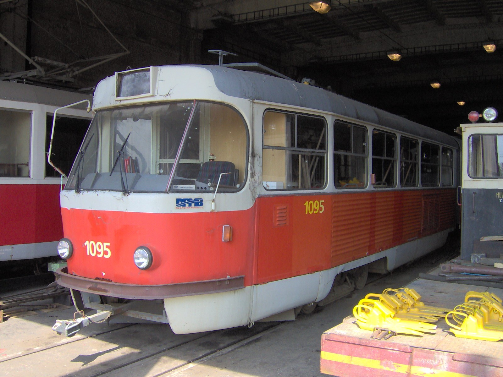 Historical tram No. 1095 (type Tatra K2) in Brno, Czech Republic